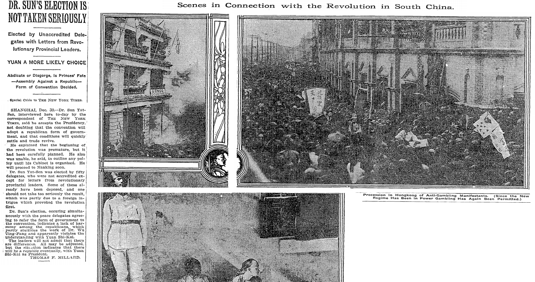 DR. SUN'S ELECTION IS NOT TAKEN SERIOUSLY